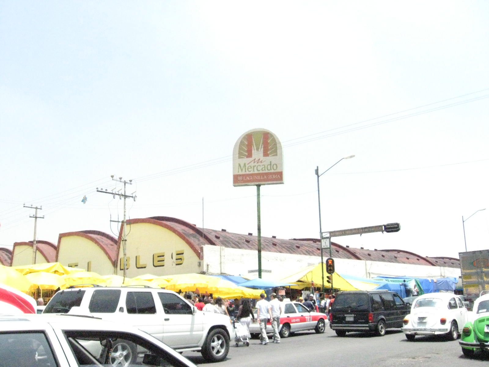 a small portion of the Lagunilla market located in north of the Centro of Mexico City between Metro stations Lagunilla and Garibaldi